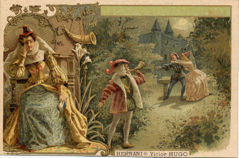 Silva sounds the horn to summon Hernani-act 5